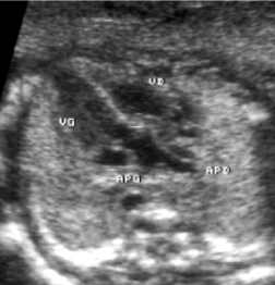 Transposition of the great vessels